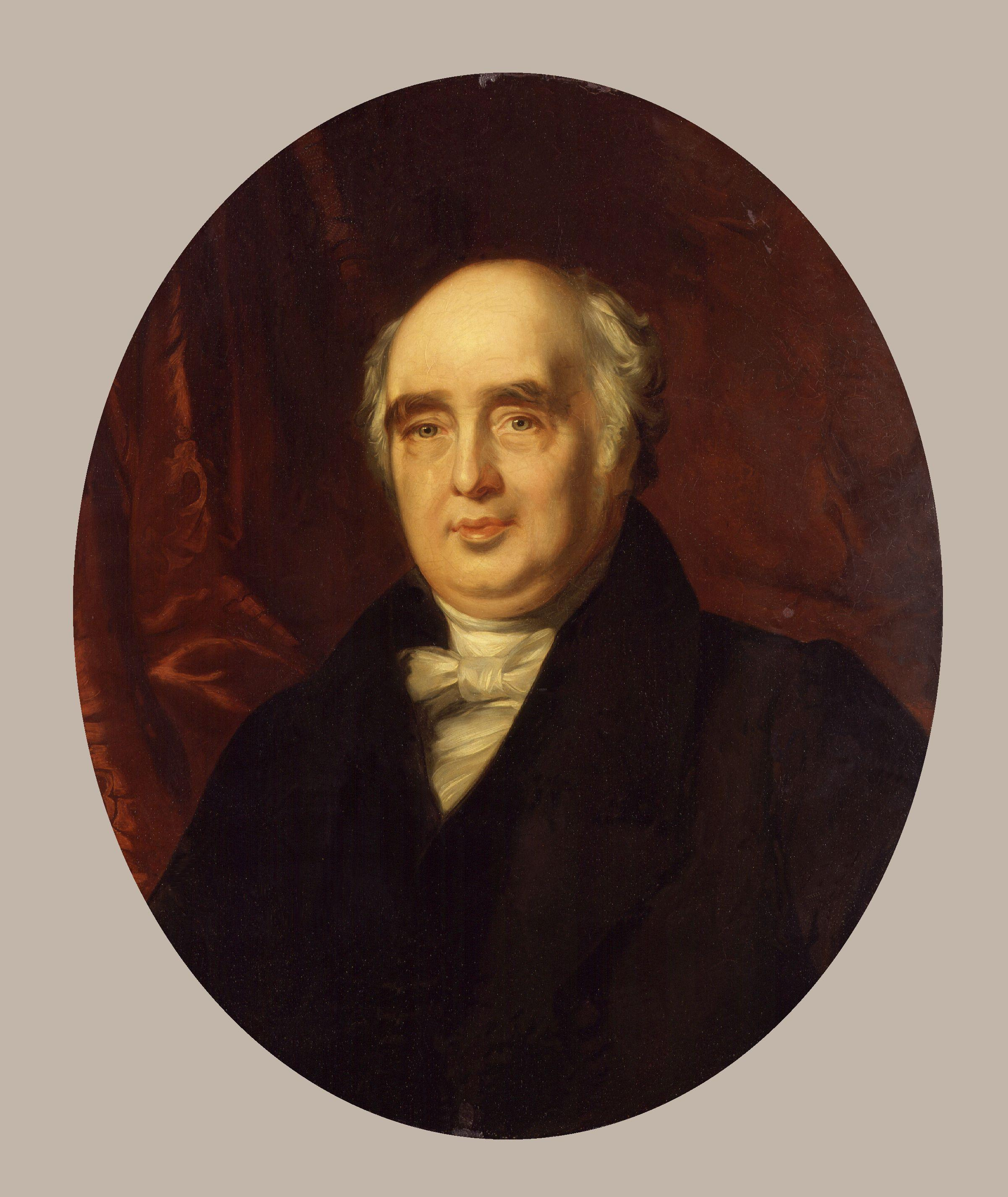 Henry Richard Vassall Fox, 3rd Baron Holland, by Charles Robert Leslie (died 1859), given to the National Portrait Gallery, London in 1873. All images in this batch have been confirmed as author died before 1939 according to the official death date listed by the NPG.